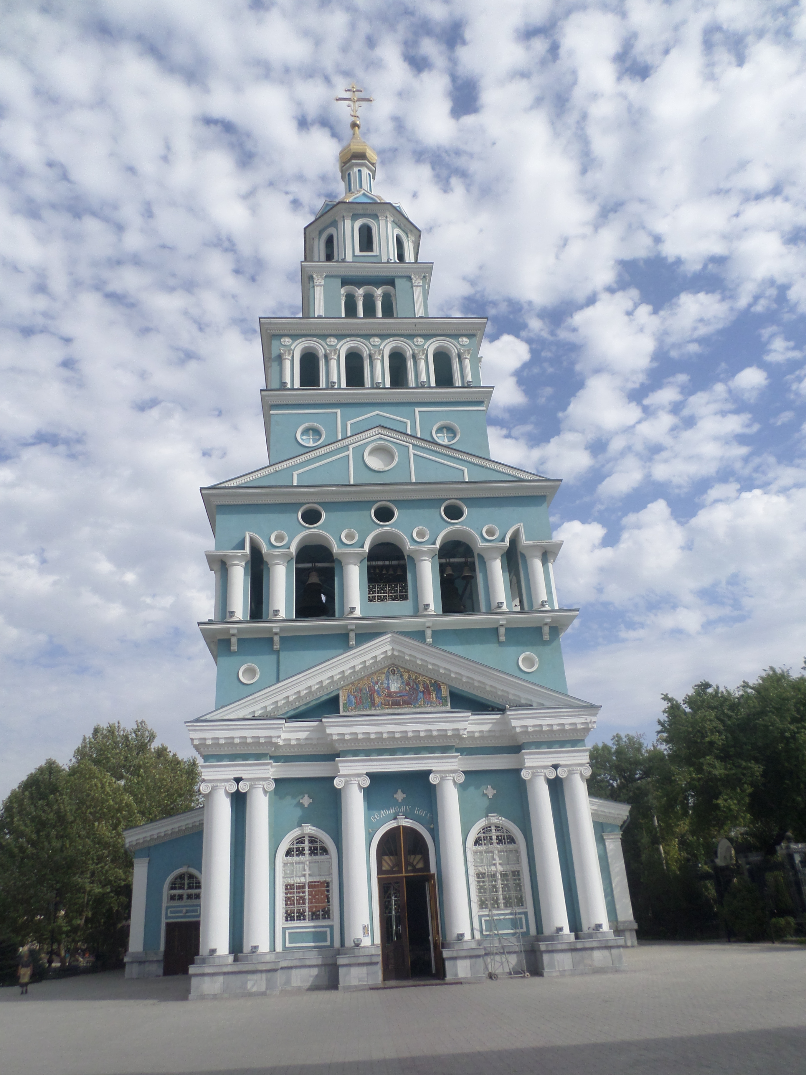 Cathedrale de la Dormition de Tachkent